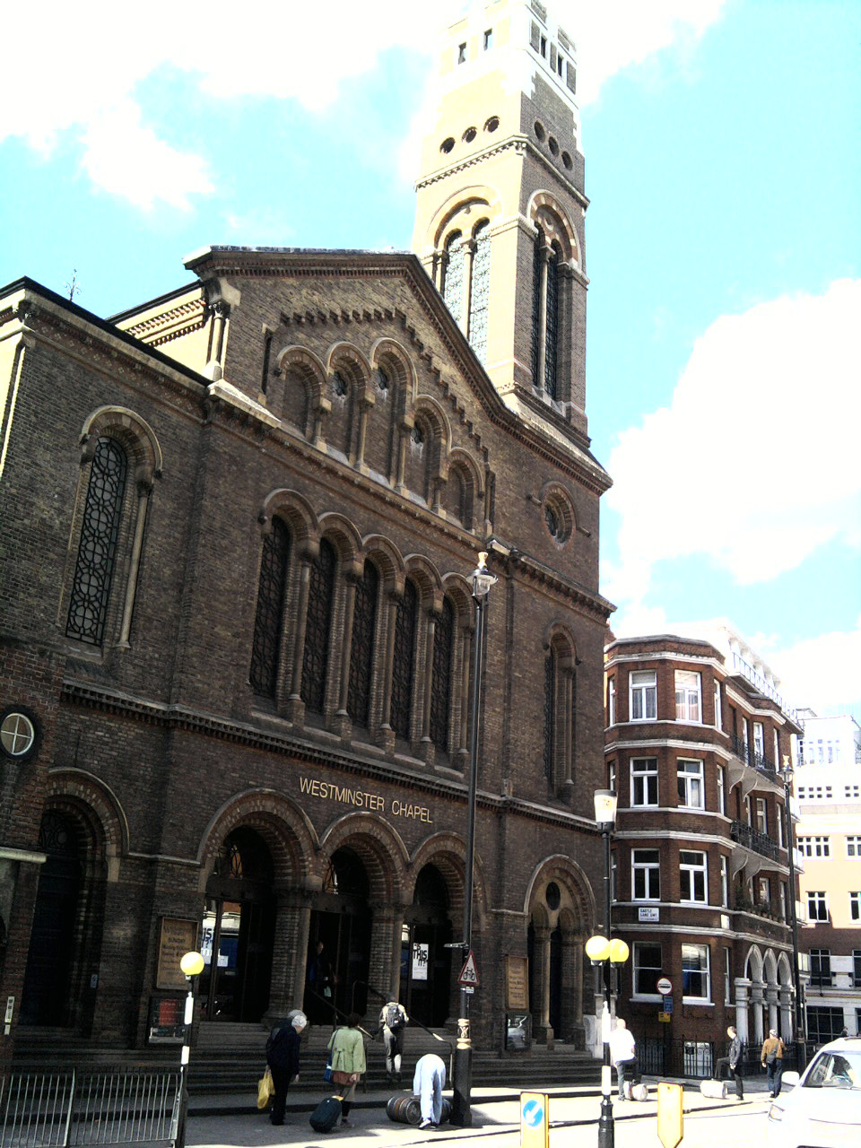 Westminster Chapel, Buckingham Gate, London SW1, seen from the east